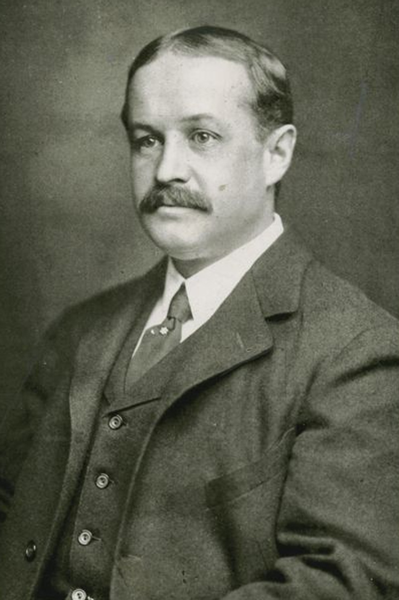 John Borland Thayer, circa 1900, Vice President of the Pennsylvania Railroad and victim of the Titanic disaster